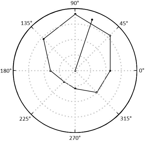 Circular profile with resultant vector Michael Gurtman (1994): 'The circumplex as a tool for studying normal and abnormal personality: A methodological primer' in Stephen Strack; Maurice Lorr (eds.) Differentiating Normal and Abnormal Personality. Covert Internal Processes, Springer, p. 243–263